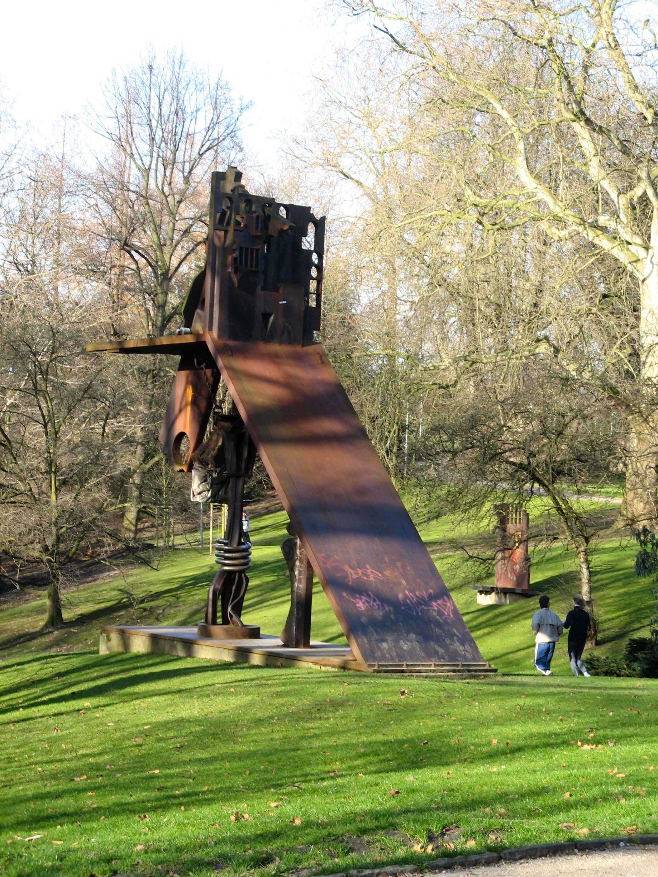 Kunst im Stadtpark - Skulptur von Ales Vesely : Iron Report (1979) Art Objects in the municipal park - sculpture designed by Ales Vesely.